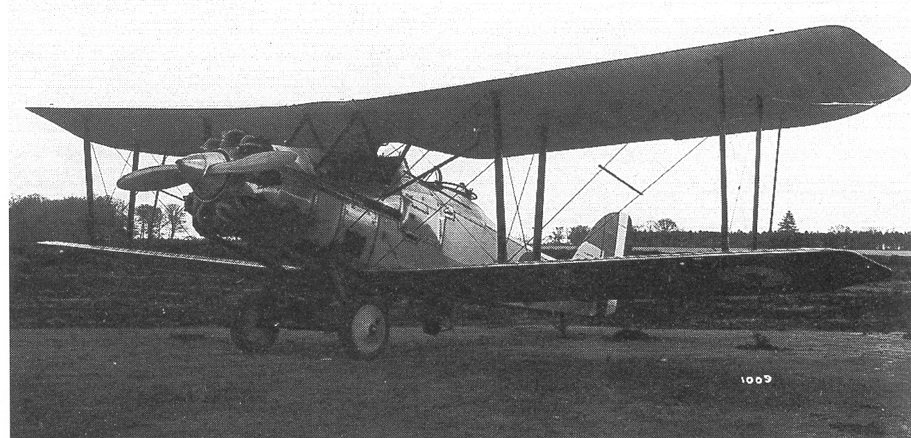 The sole Bristol Type 93A BeaverG-EBQF, April 1927